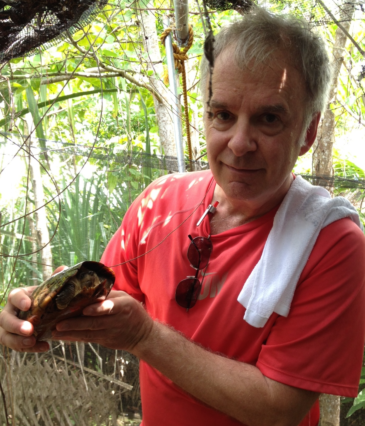 Dr Glen Chilton examining a Philippines Forest Turtle